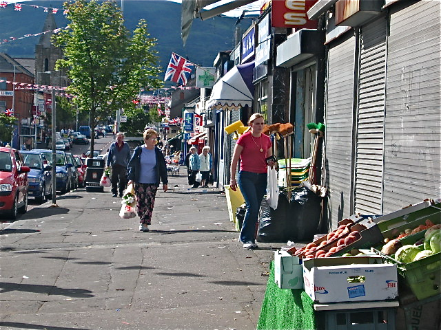 Shopping in Shankill, Belfast.